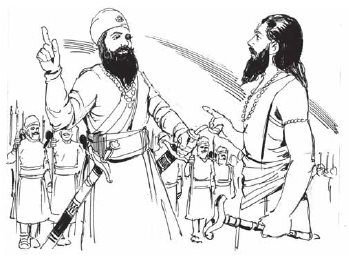 samarth ramdas & guru hargovindaji